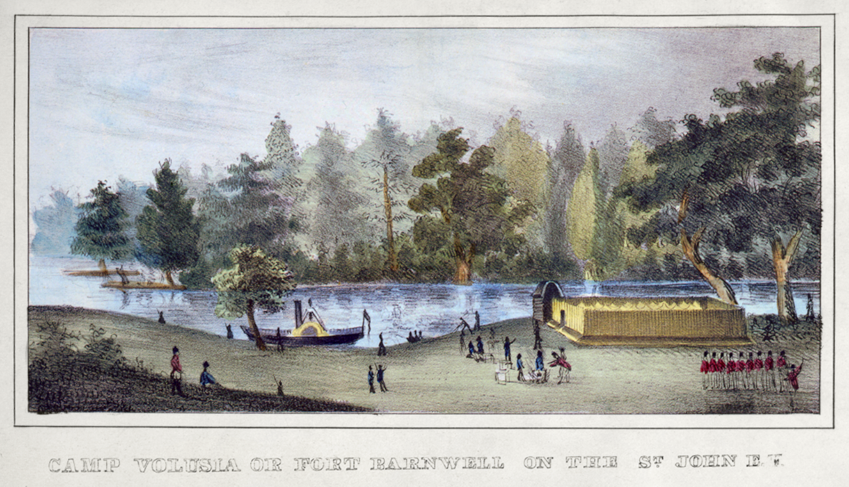 Camp Volusia or Fort Barnwell on the St. John E.F.